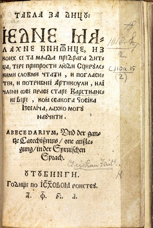 Primož Trubar's "Primer" in 1561 translated by Antun Dalmatin as "Tabla za Dicu"